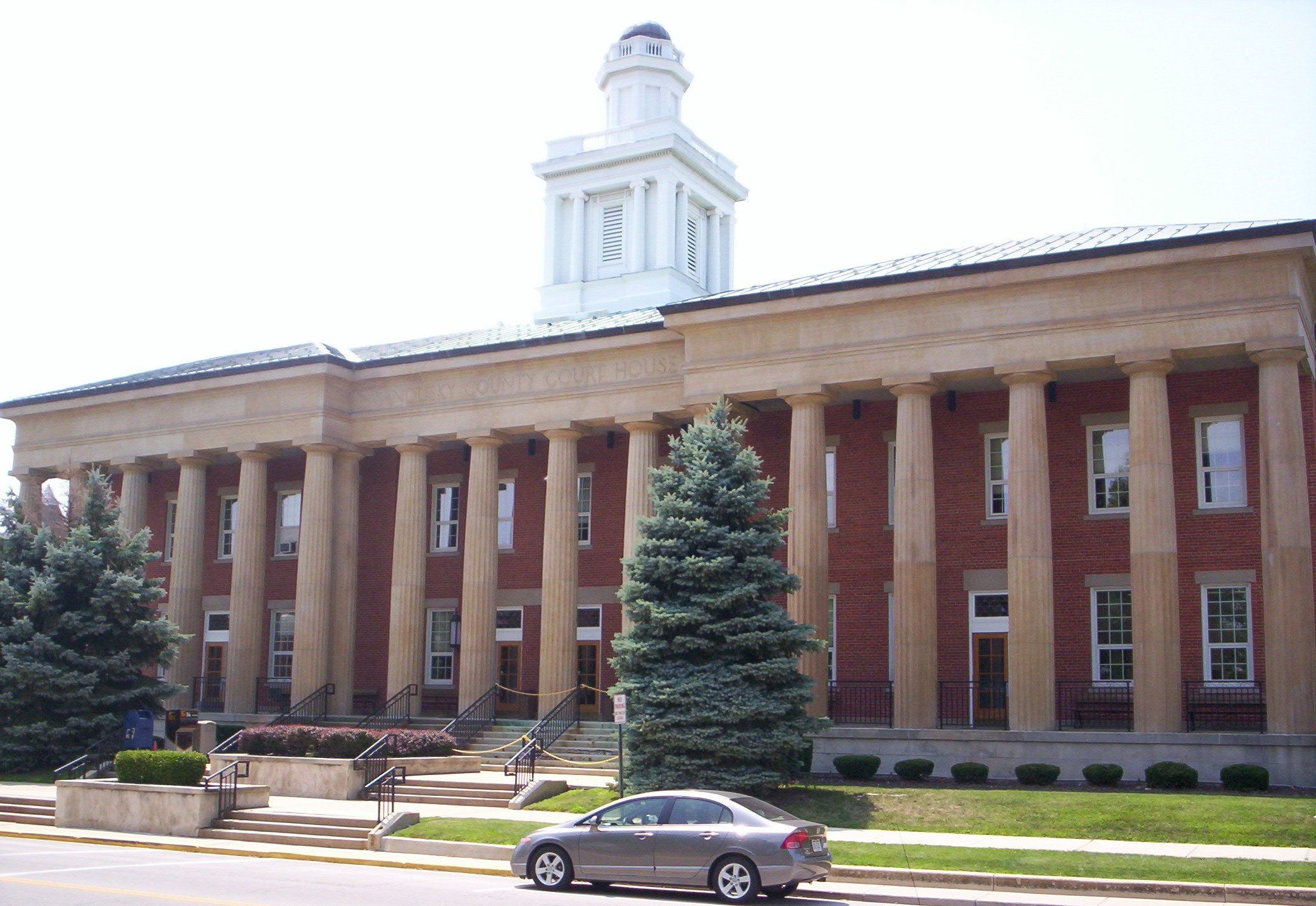 Sandusky County Courthouse in downtown Fremont, Ohio.